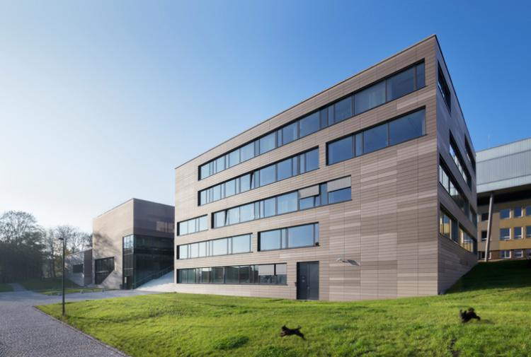 Multifunctional centre & Chancellor's office